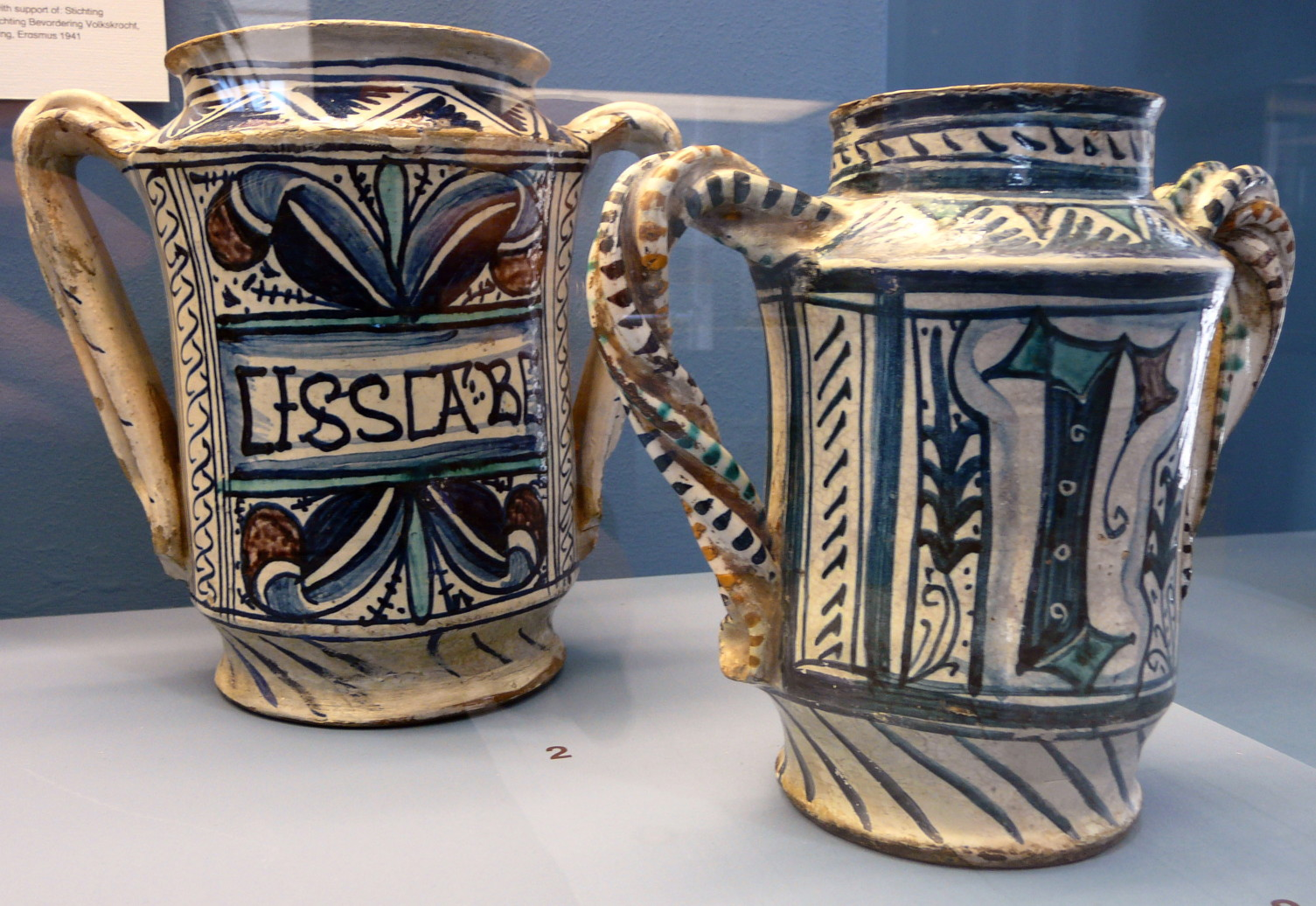 Drug jar (albarello), majolica, Italy, 1450-1480. Left jar: Bella Francissca (1450-1470); right jar: Italy (Faenza), 1450-1480. Foto genomen op 21 juni 2009 tijdens Midzomer evenement voor WLANL georganiseerd door Museum Boijmans van Beuningen in Rotterdam.